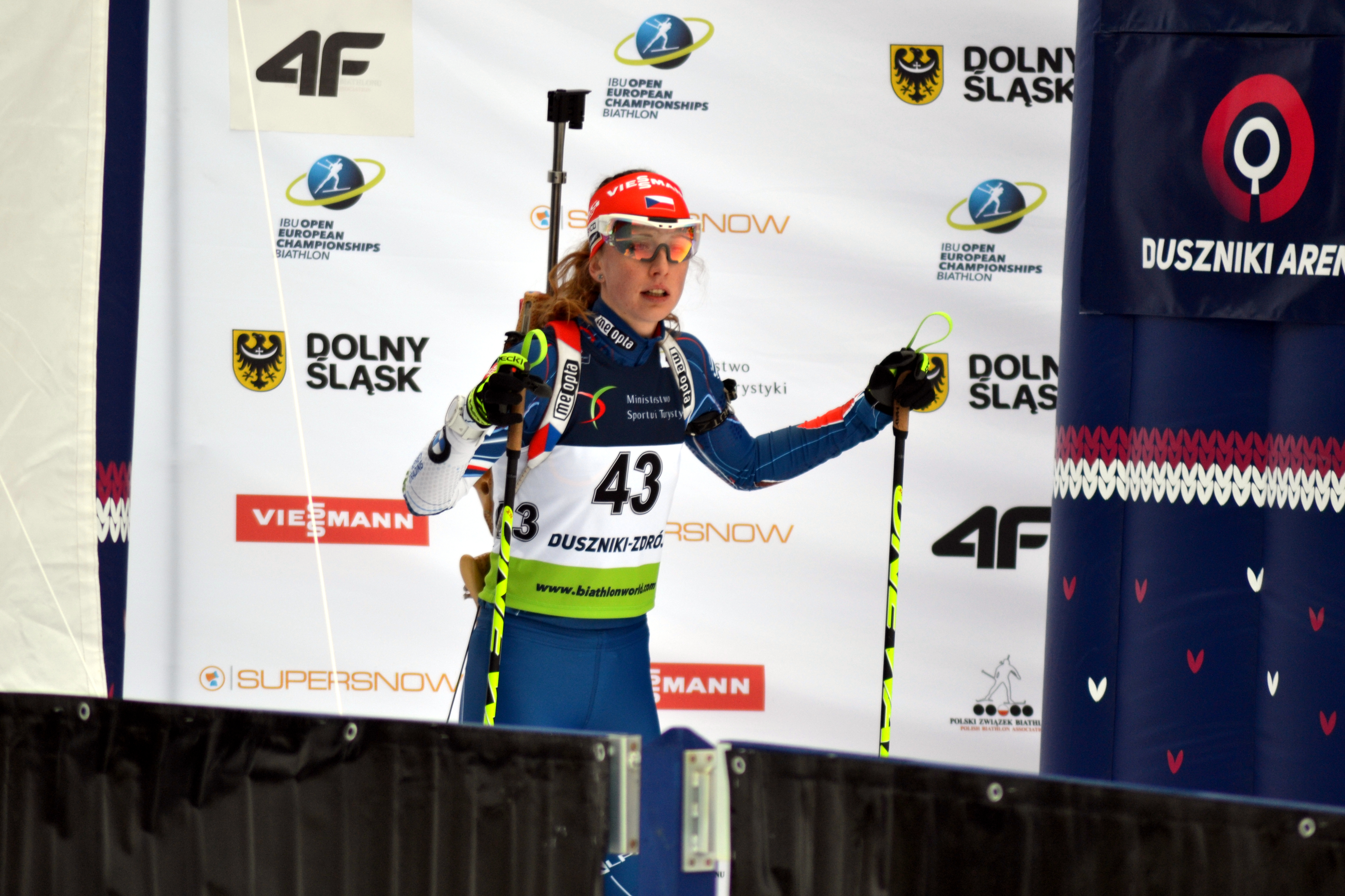 Open European Championships Biathlon 2017, Individual Women's race, held on January 25th.